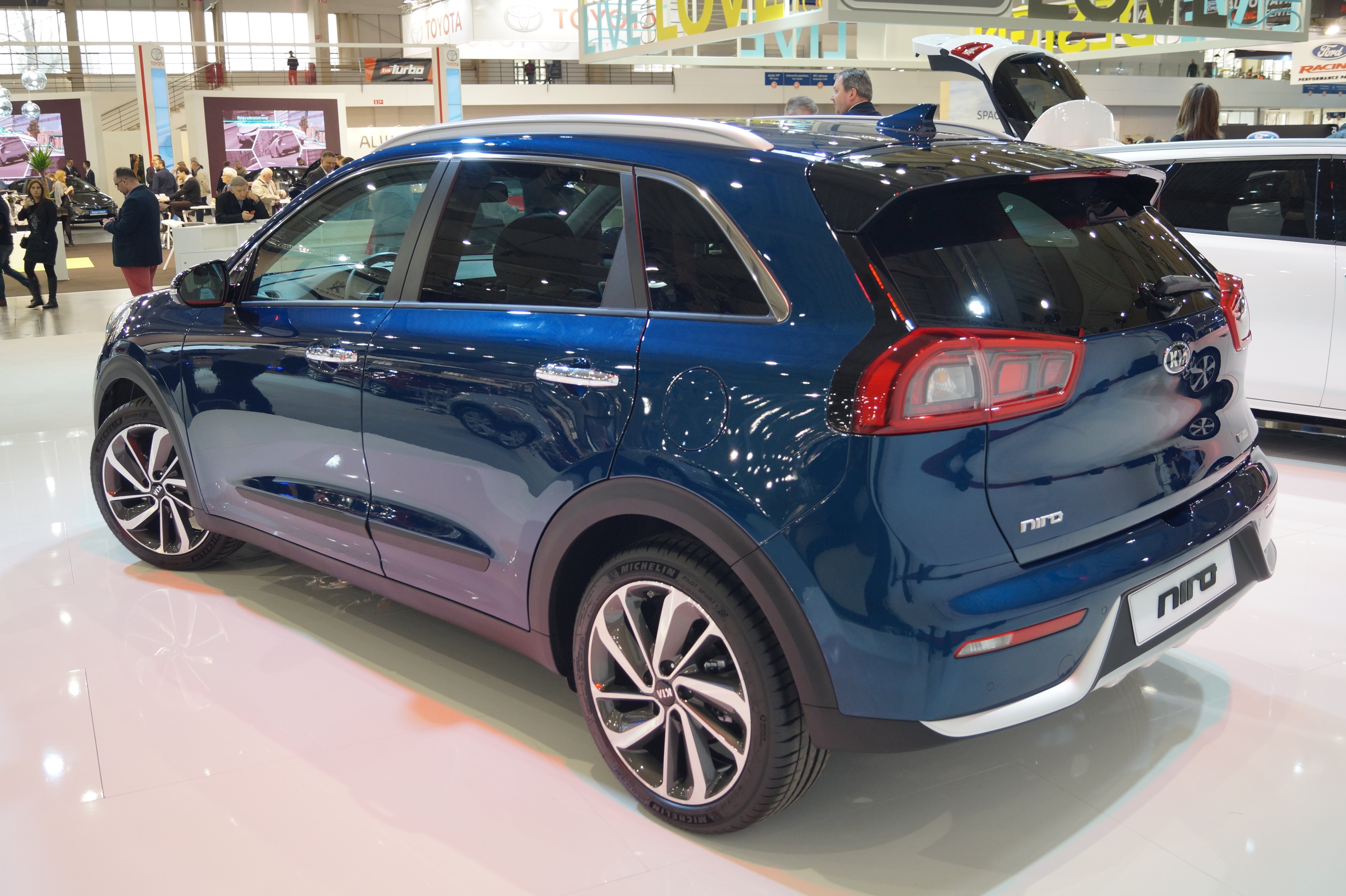 The making of this document was supported by Wikimedia Polska Association, within Wikigrant no. WG 2016-10. English | polski | +/− Tył Kii Niro na Motor Show Poznań 2016